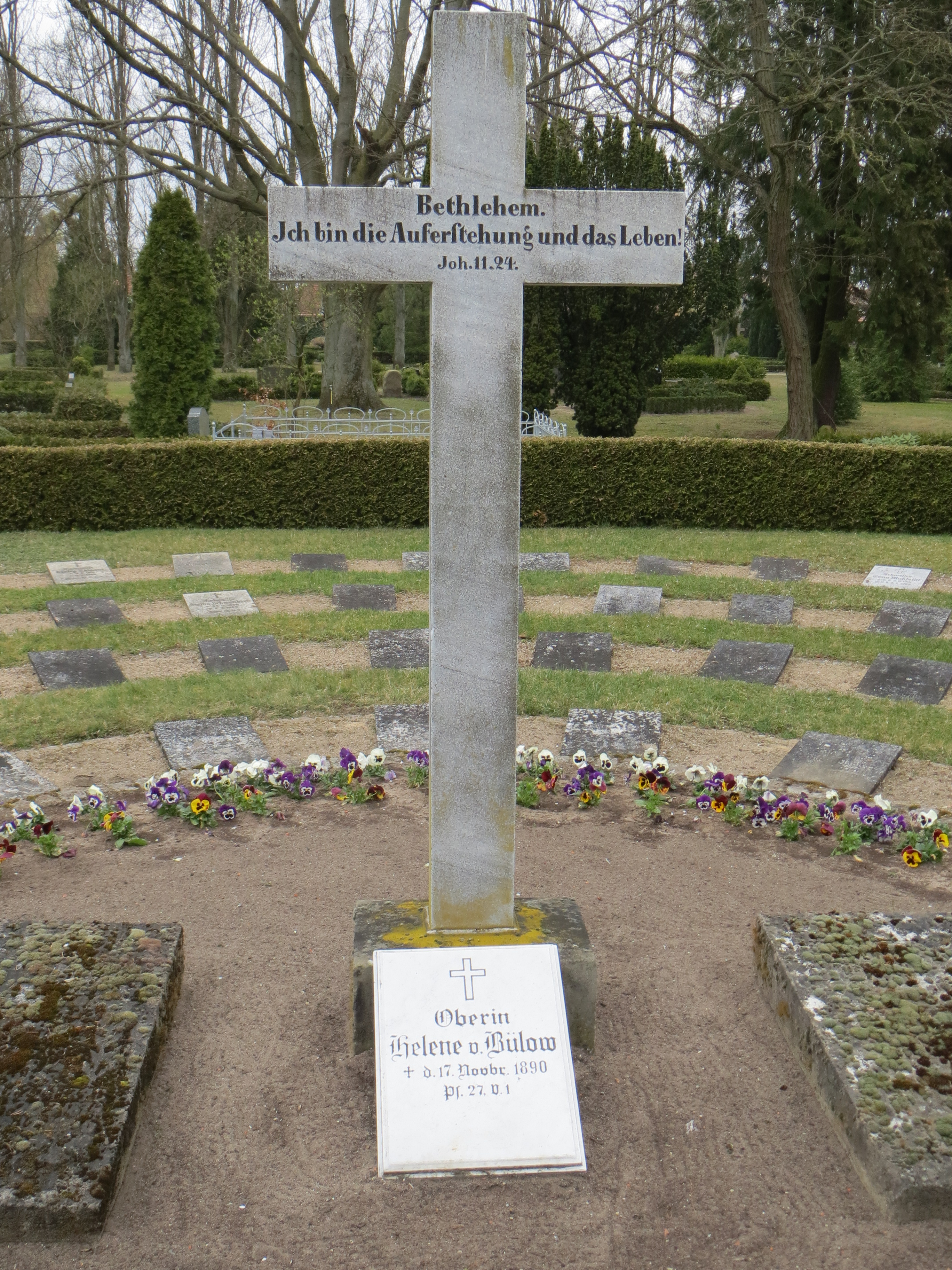 Friedhof Ludwigslust